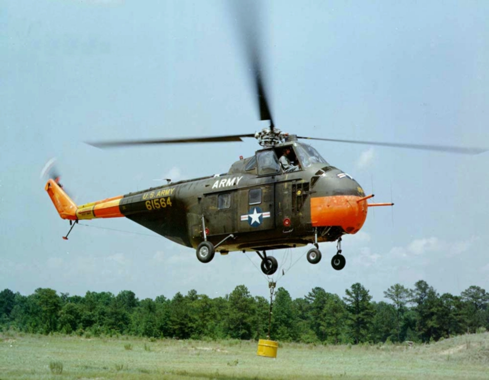 A U.S. Army Sikorsky UH-19D Chickasaw helicopter (s/n 56-1564) in flight.